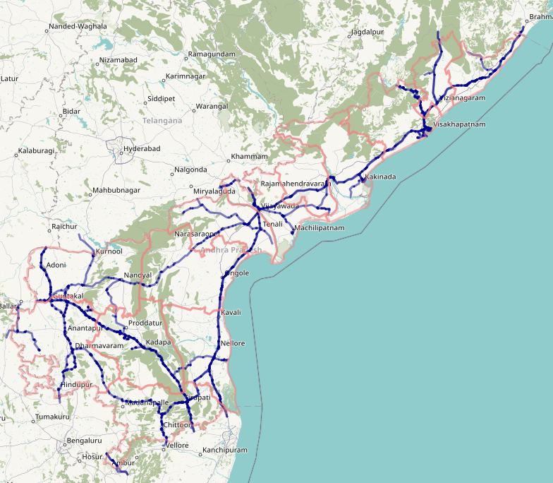 India Andhra Pradesh Rail network Screenshot Permanent URL: with Railnetwork data query on using wizard string railway=* in "Andhra Pradesh" And Andhra Pradesh district boundaries overlaid